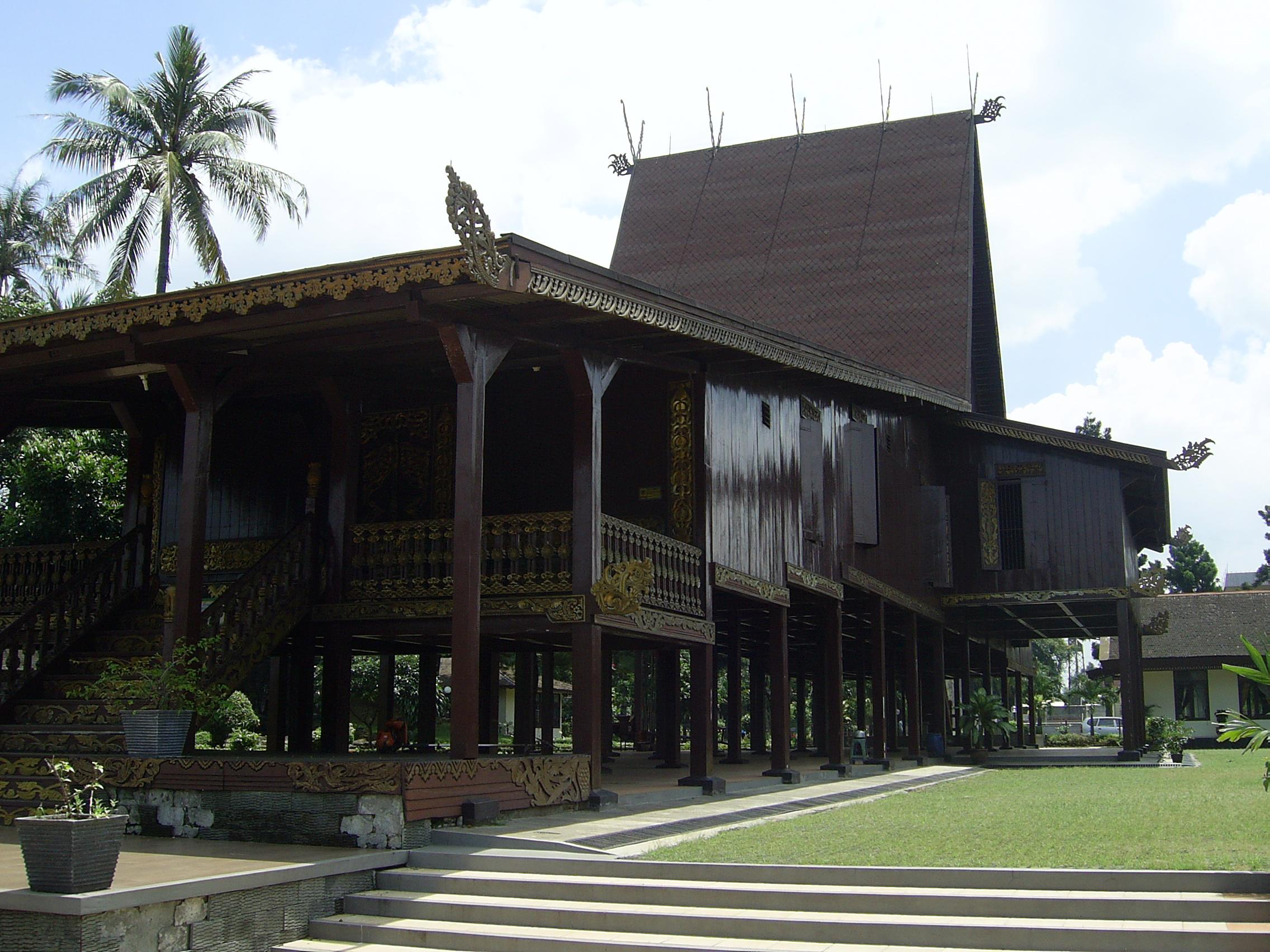 Taman Mini Indonesia Indah theme park, Jakarta, Indonesia, South Kalimantan province section